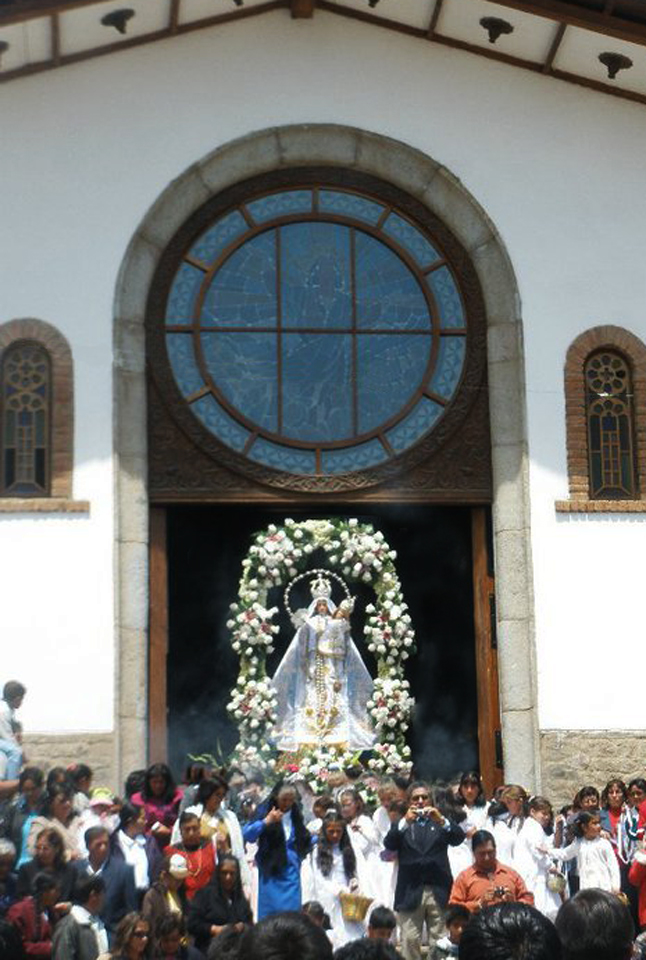 The procession of Mama Ashu brings together hundreds of faithful who come from towns like Vicos, Carhuas, Yanama, San Luis and Huari. Most of them are forming a dance with which to worship the Virgin.